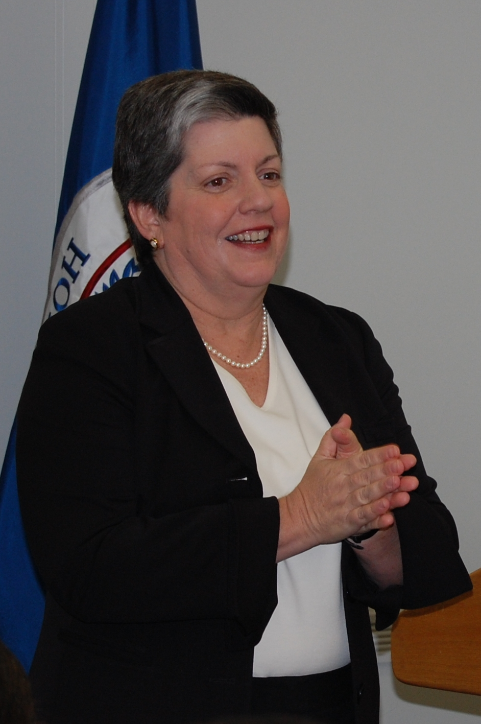 New York, NY, December 3, 2009 -- Secretary of the Department of Homeland Security, Janet Napolitano, is greeted by FEMA Region II staff at an “all-hands” meeting in New York City. The visit was part of a three-day trip to the city where the Secretary also spent time with a number of private sector partners and addressed several public events. Elissa Jun/FEMA